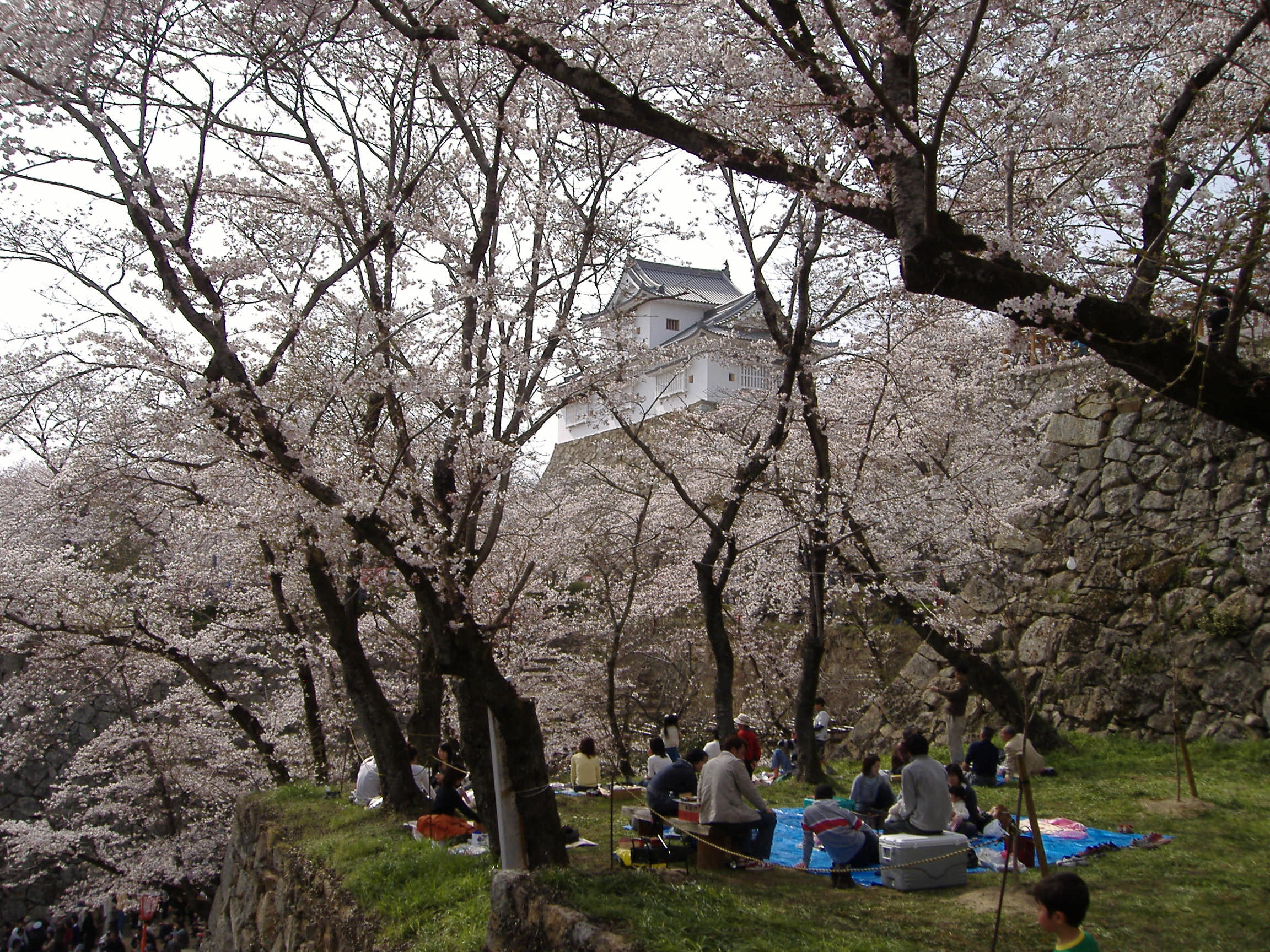 People enjoying the Cherry Blossoms in Kakuzan Park, Tsuyama. Taken by me on 9th April 2006. To be added to Tsuyama, Japan entry.